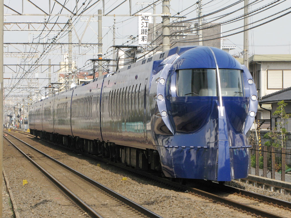 A Nankai 50000 series EMU